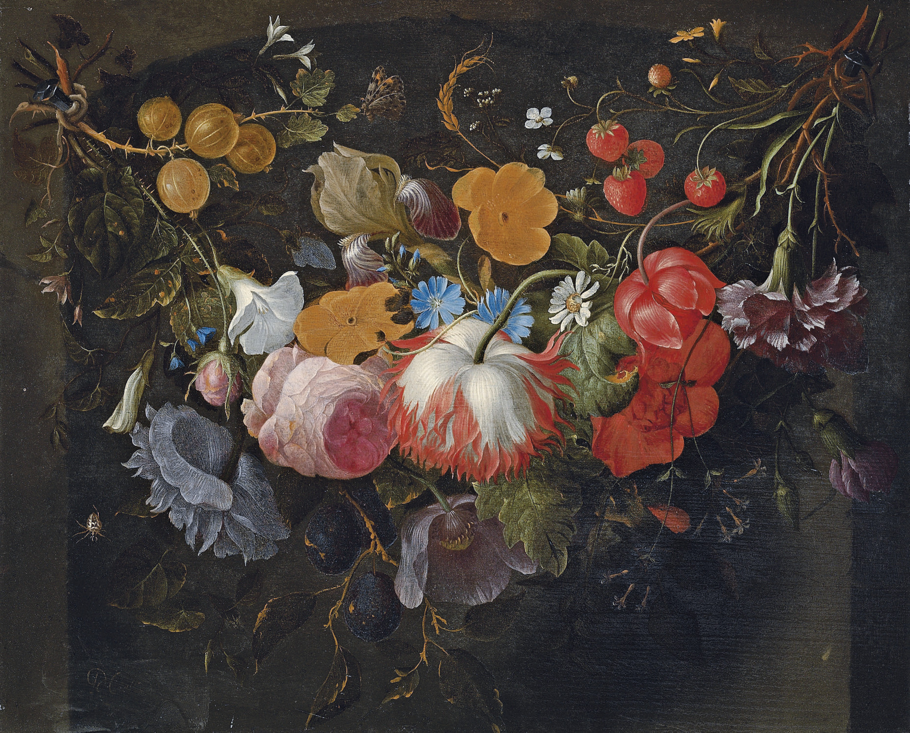 A Swag of Flowers Hanging in a Niche, with Gooseberries, Strawberries, Roses, Plums, an Iris, a Daisy and a Spider signed ‘PGallis’ (lower left), oil on panel, 35.6 x 43.8 cm (14 x 17¼ in)